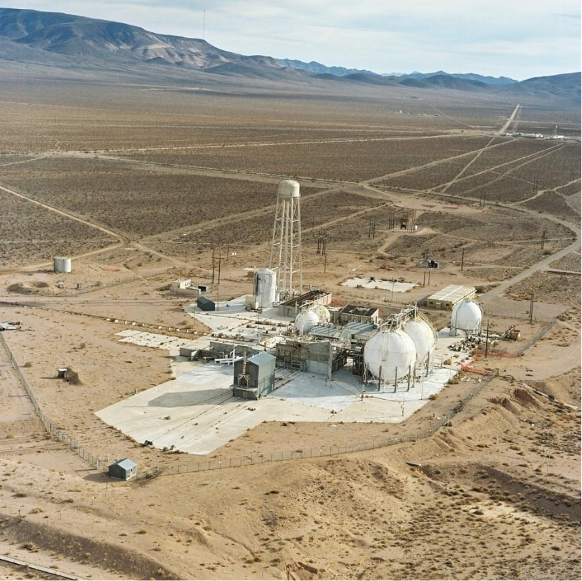 Test Cell C at the Nuclear Rocket Development Station